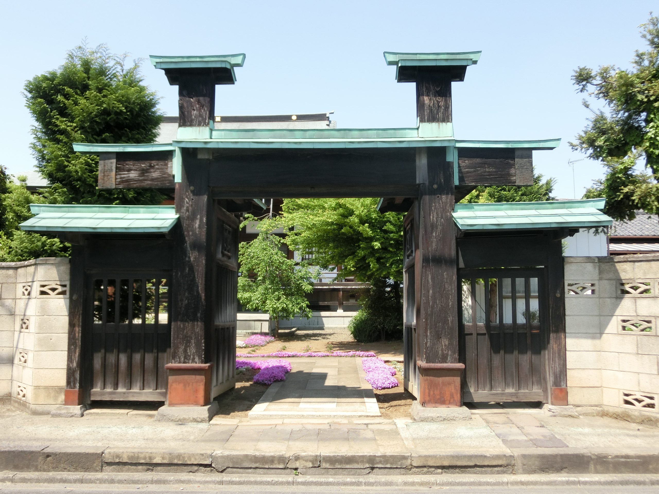 Myoyo-ji (Kawagoe)